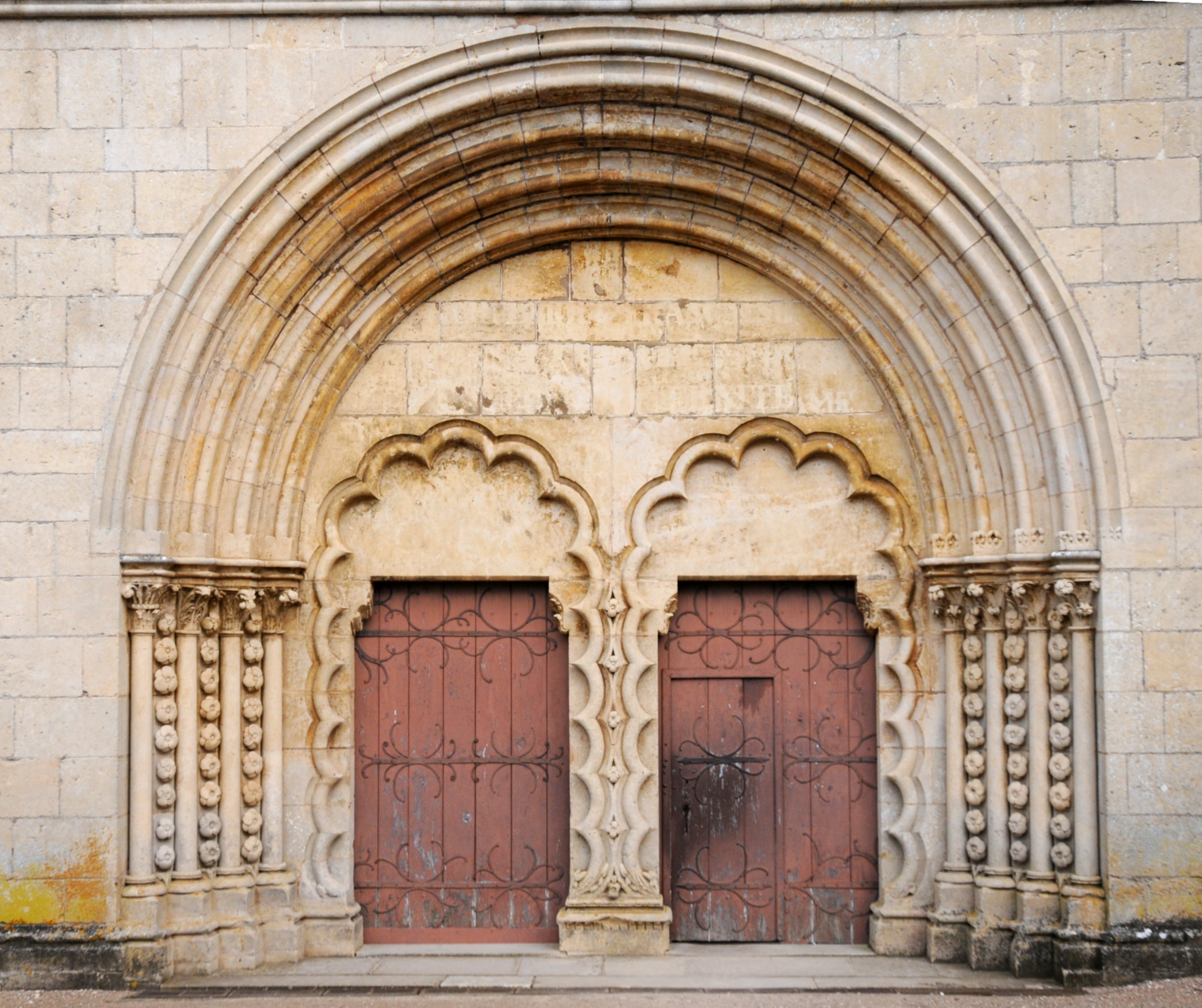 Collégiale Notre-Dame de Montréal, Yonne. Burgundy, France